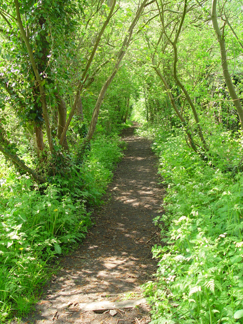 Path through Dingle Dell, Gunby, East Riding of Yorkshire, England.Dingle Dell is a nature reserve. The railway passes through on a raised causeway which carries the footpath; on either side is a tangle of trees, bushes and ivy, at a lower level. The floor of the area is very wet with standing water for the most part.